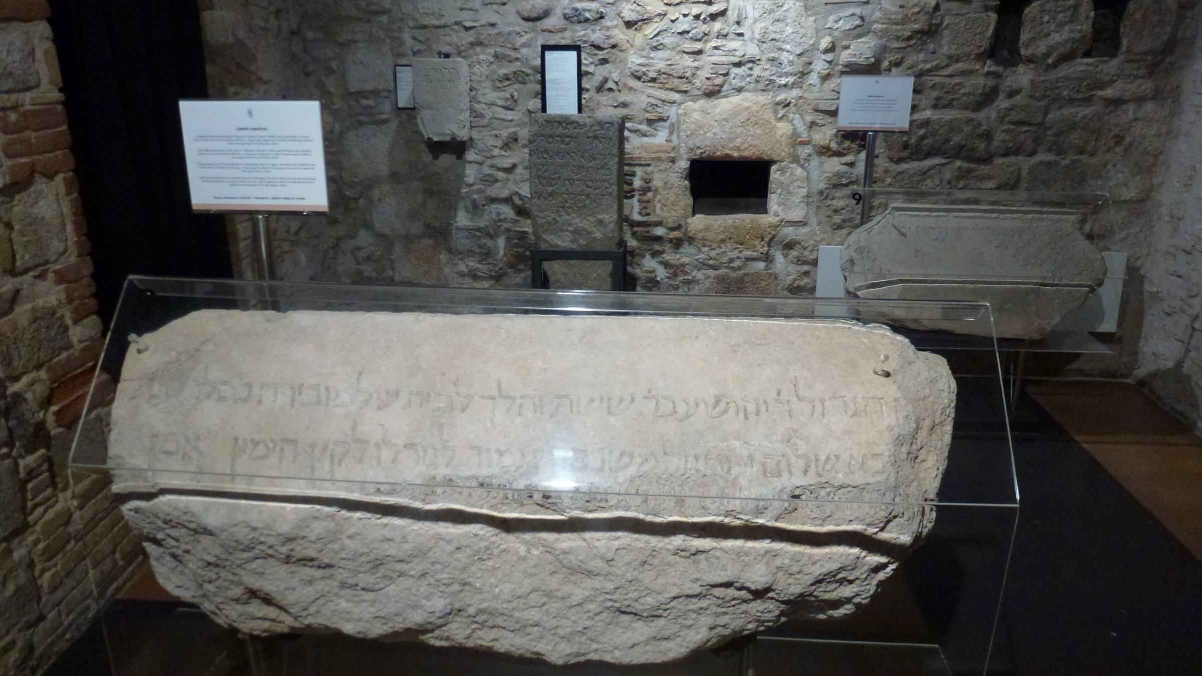 Gravestones at the Museum of Jewish History in Girona. These gravestones originated from the cemetery of Montjuic, Girona. Photo obtained in 2019. The grave stone in the foreground states "[This gravestone] is of the illustrious R. Yehoshua, son of R. Seset, who went to his eternal rest in the month of Kislev in the year... may he rest in peace in his grave to receive reward at the end of time. Amen.